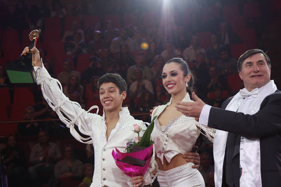 René Casselly Jr., Merrylu Casselly and József Richter in 10th International Circus Festival of Budapest.